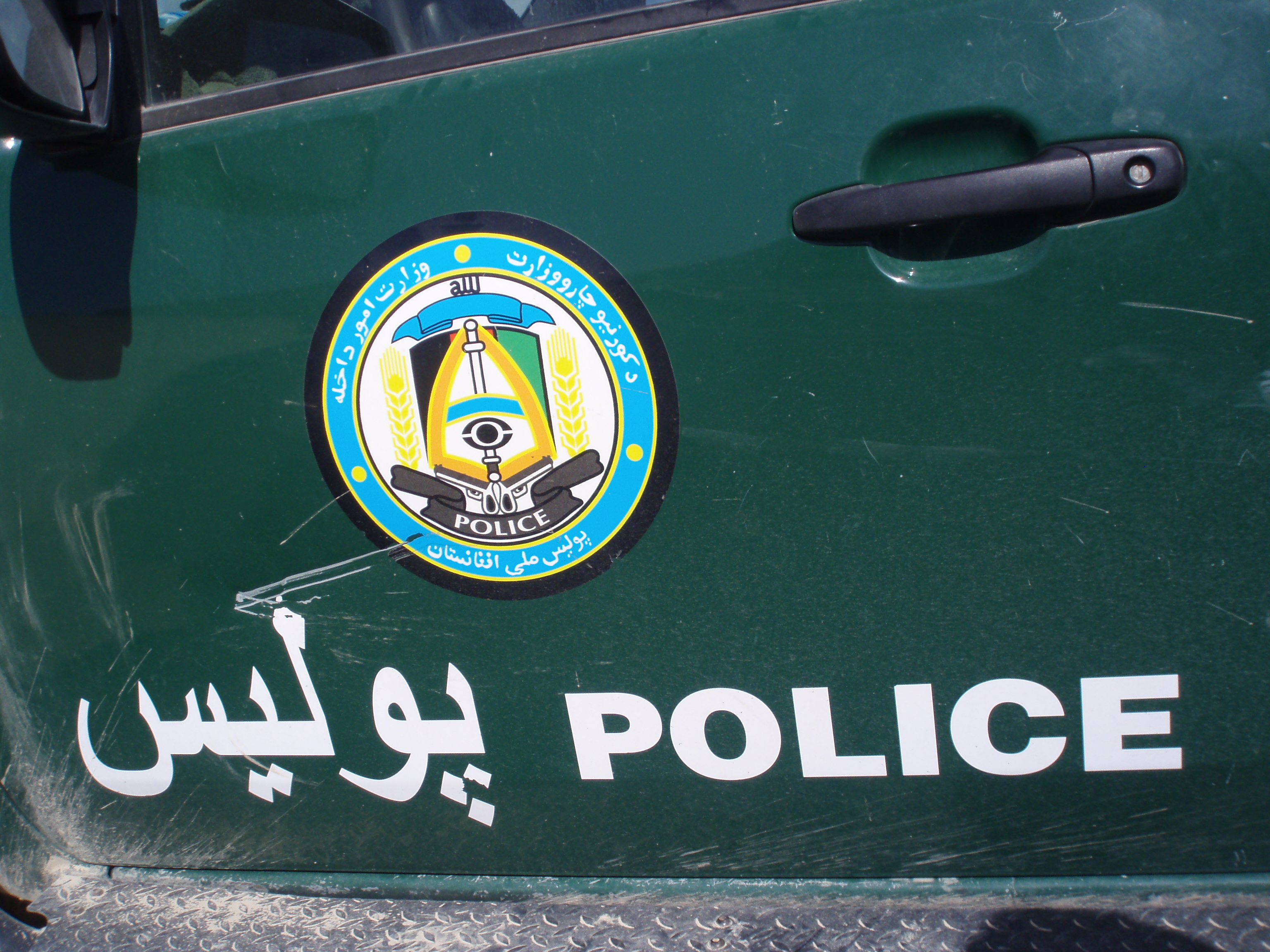 ANP insignia